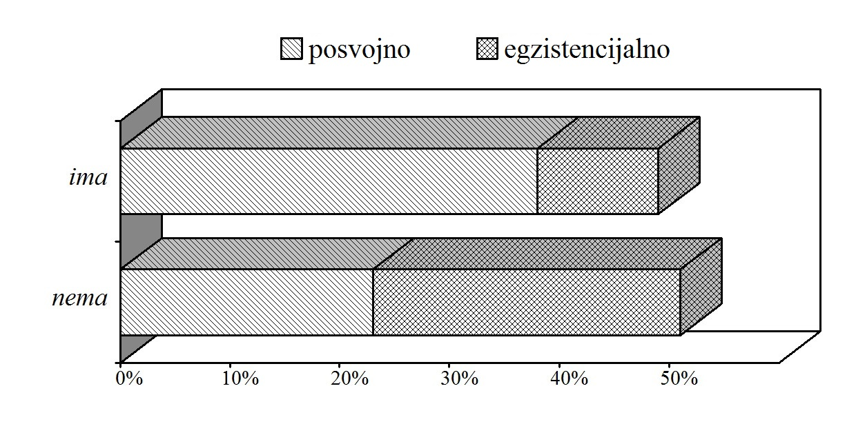 Serbo-Croatian translation of the file File:Existential clauses.jpg